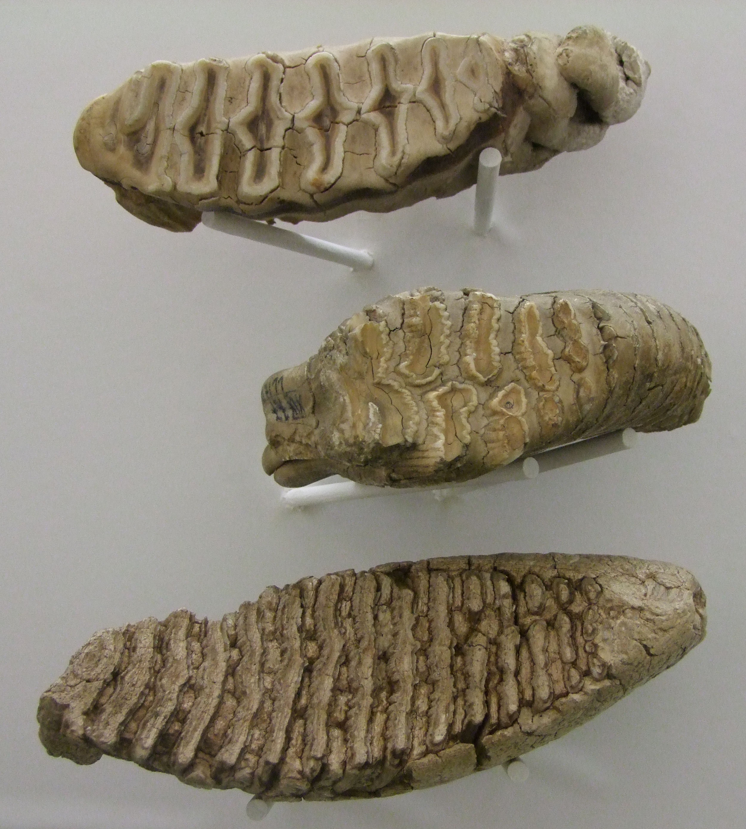 molars of elephants, above: Loxodonta, middle: Elephas, below: Mammuthus, photographed in the Phyletisches Museum Jena